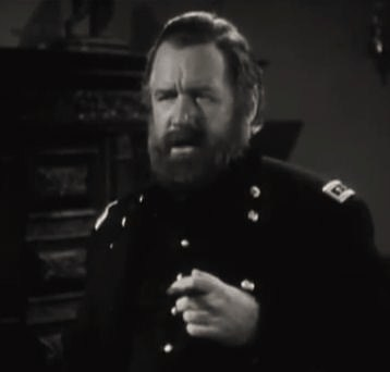 Joseph Crehan in the American western film Colorado (1940) - cropped screenshot